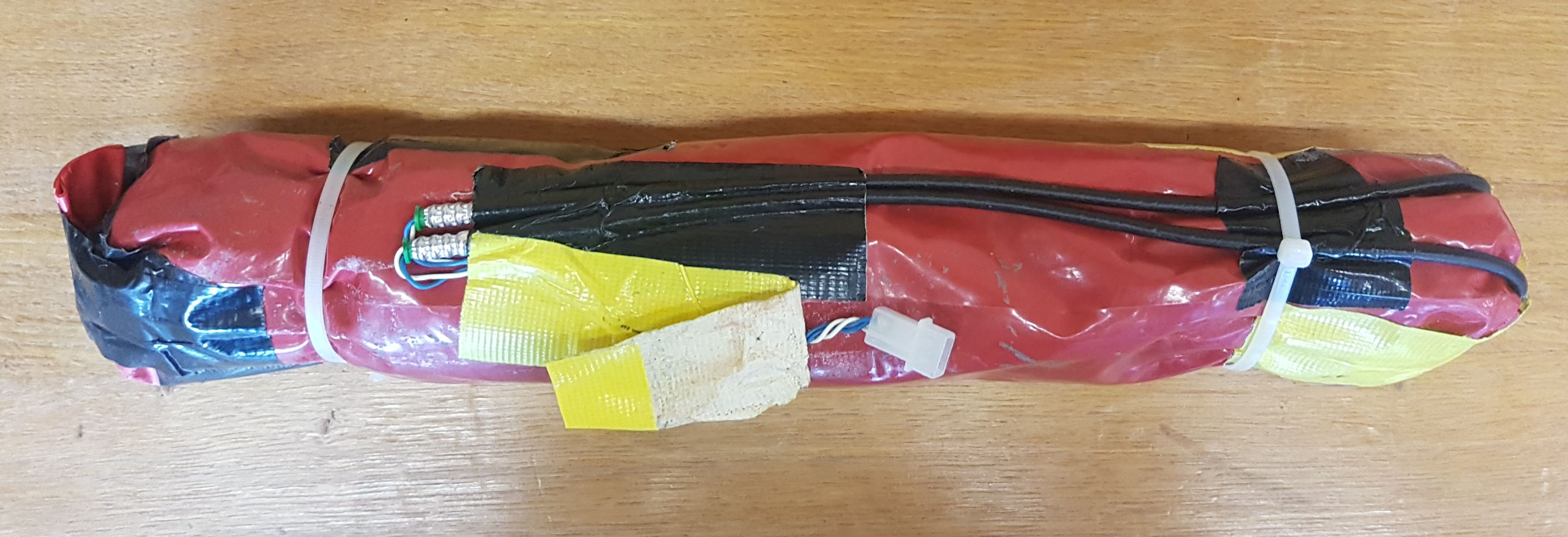 Avalanche blasting (avalanche dispersion) by hand. Ready-prepared bursting (explosive) charge Sytamit 5kg (diameter 80mm).